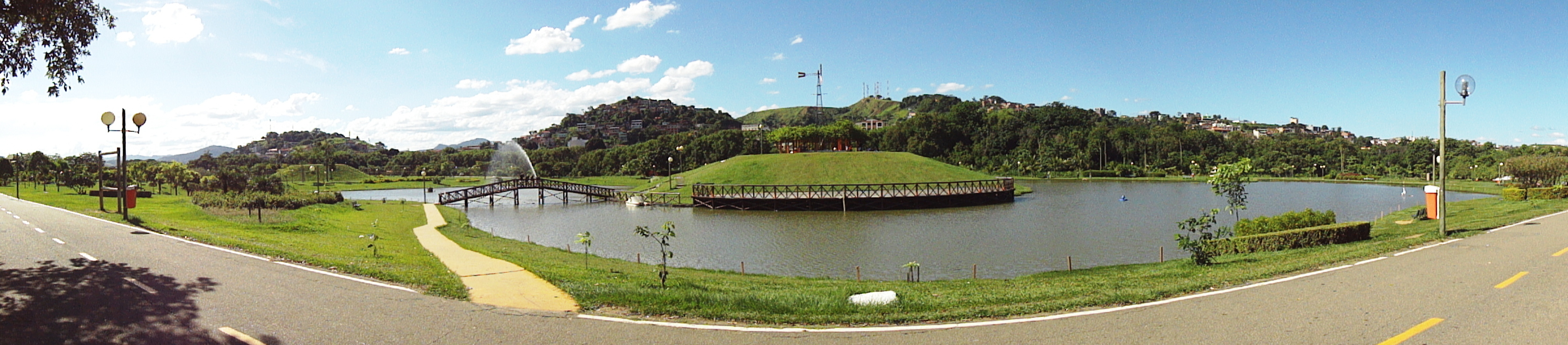 Panoramic view of the Ipanema park, in Ipatinga, Minas Gerais, Brazil.